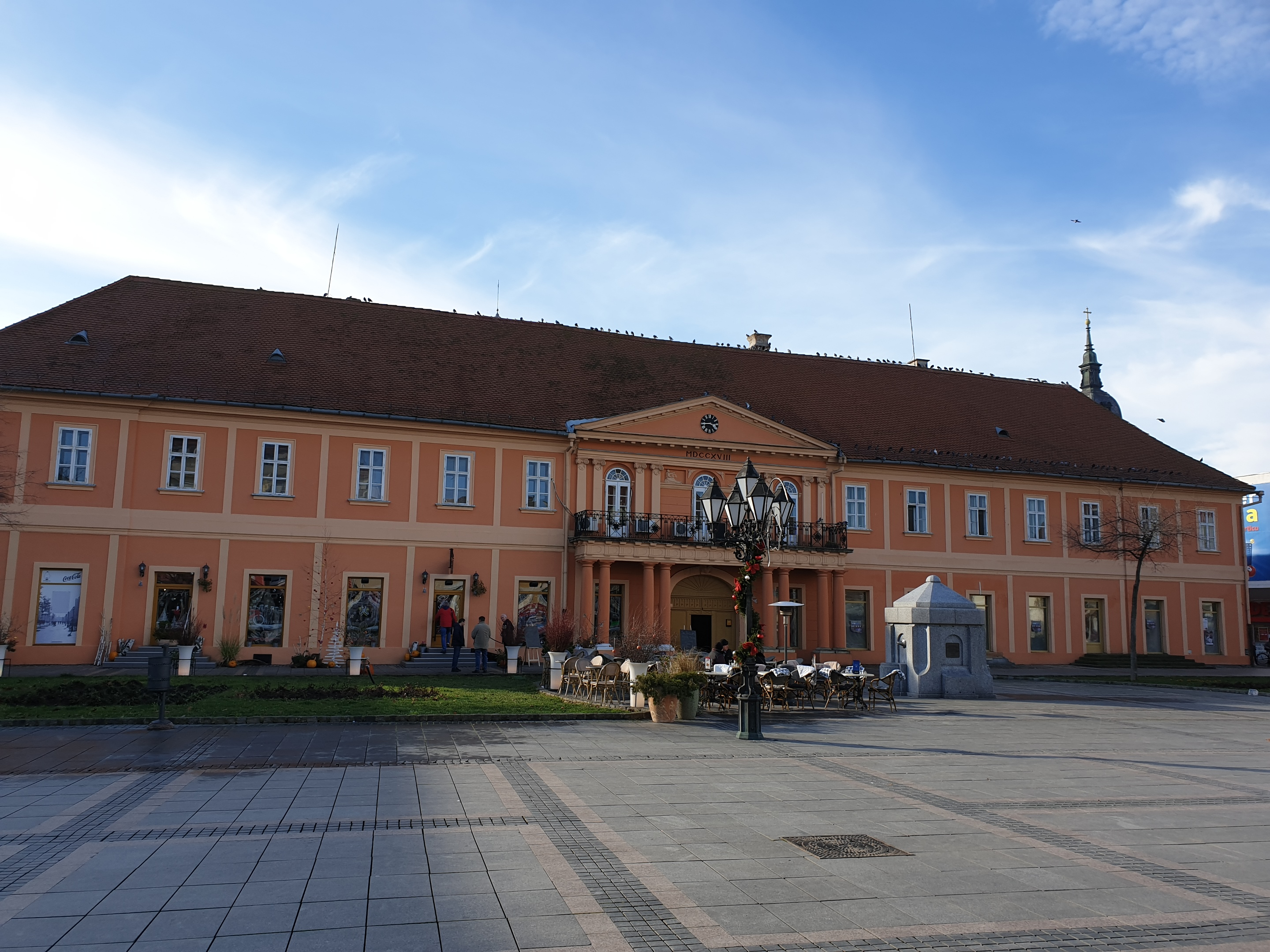 Gradska kuća1